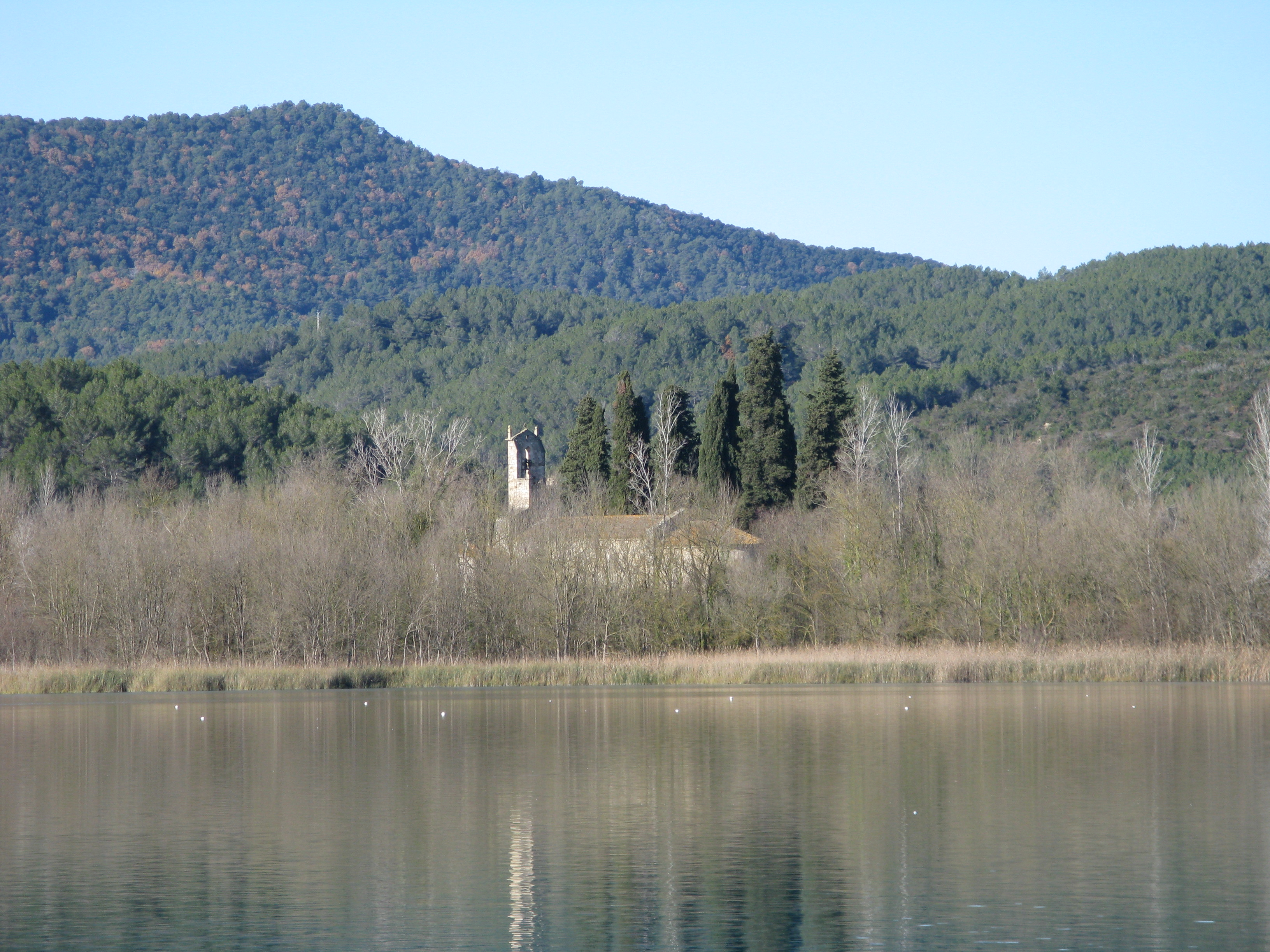 Romanesque Church Santa Maria de Porqueres (View from lake), Katalonien, Lake de Banyoles